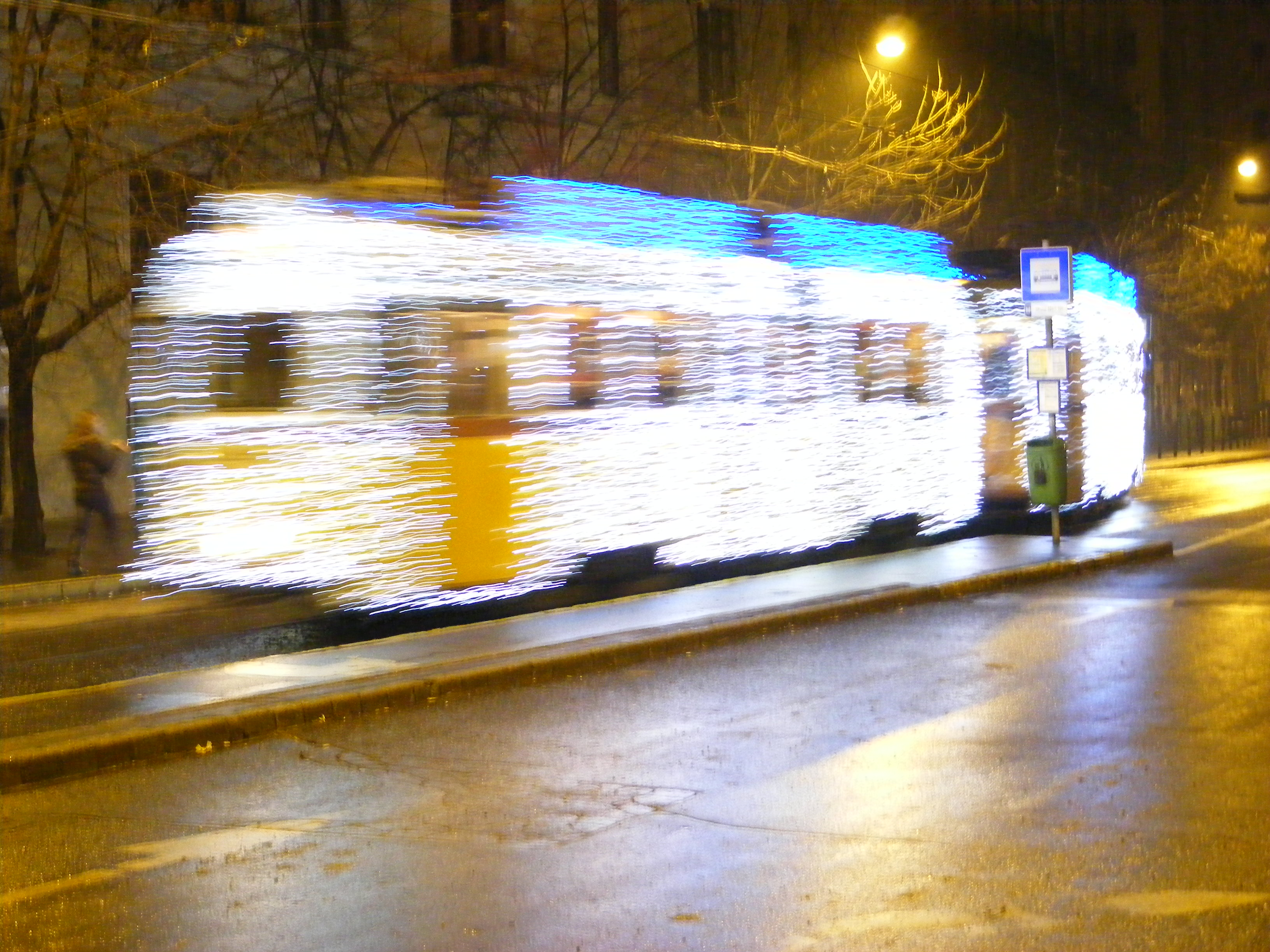 Two specially decorated UV class heritage tramcars leaving the tram stop of Jászai Mari Square in Budapest. The "tram of light" is rigged with hundreds of white and blue light bulbs and participates in everyday scheduled traifc during the advent and christmas preiod.